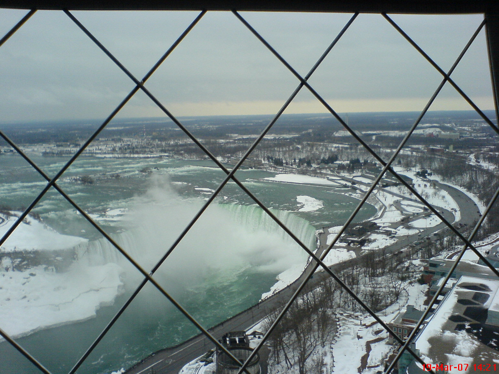 Niagara Horseshoe Falls as seen from the top of the Skylon tower. The exterior observation deck has a fence to protect visitors. Regardless of people probably jumping, wind gusts can be so strong as to push some people off their feet. Oleksandr 20:45, 5 April 2007 (UTC)